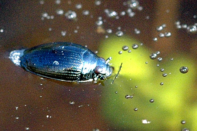 Gyrinus substriatus from Commanster, Belgian High Ardennes .